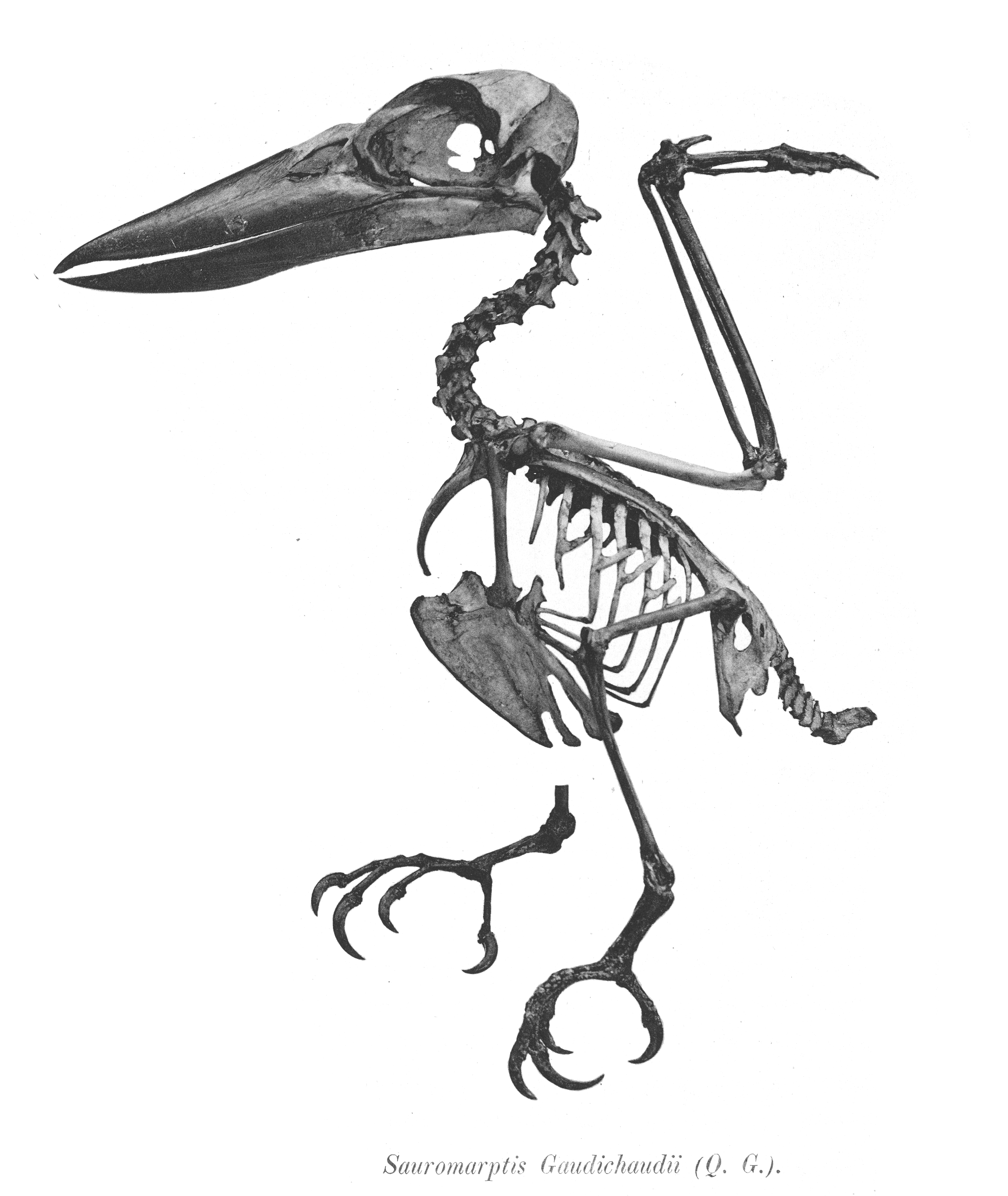 Sauromarptis gaudichaudii